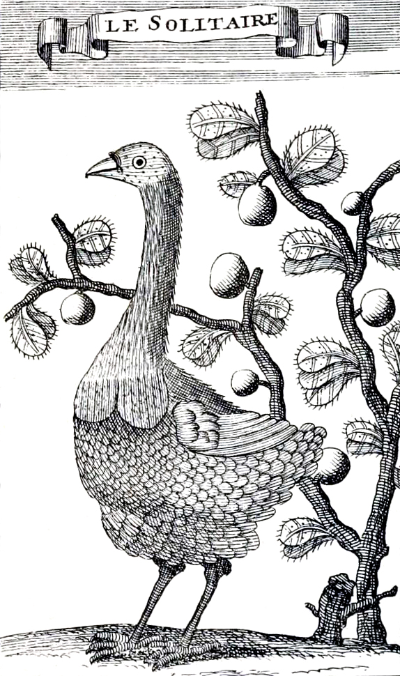 Picture of a Solitaire. From Leguat, François (1891), The voyage of François Leguat of Bresse, to Rodriguez, Mauritius, Java, and the Cape of Good Hope. 2 Volumes., Edited and annotated by S. Pasfield Oliver, London: Hakluyt Society. It is a facsimile of a figure from: Leguat, François (1708), Voyage et avantures de François Leguat & de ses compagnons en deux isles desertes des Indes Orientales. 2 Volumes., London: Mortier.